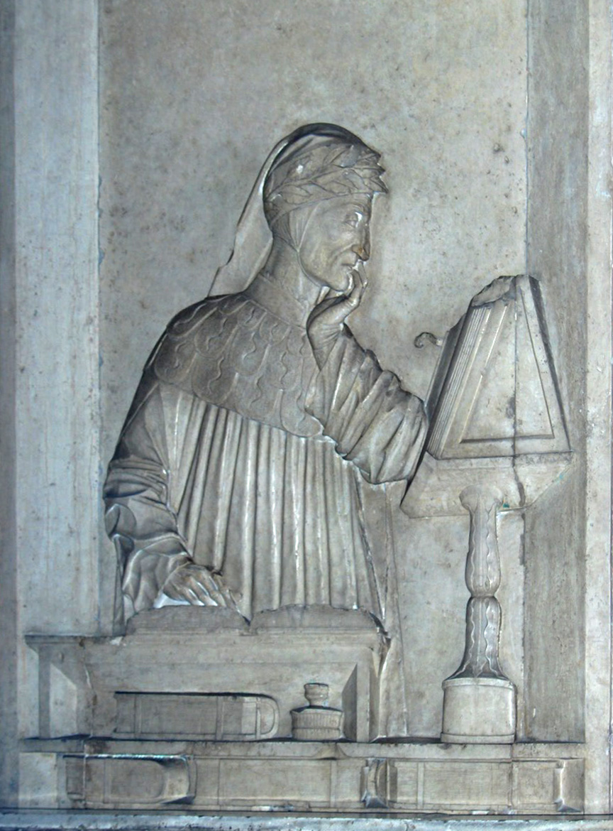 Half-relief with portrait of Dante; Dante's tomb, Ravenna, Italy